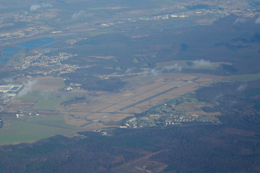 Base Aerienne 110 Creil seen after take-off from nearby CDG Airport